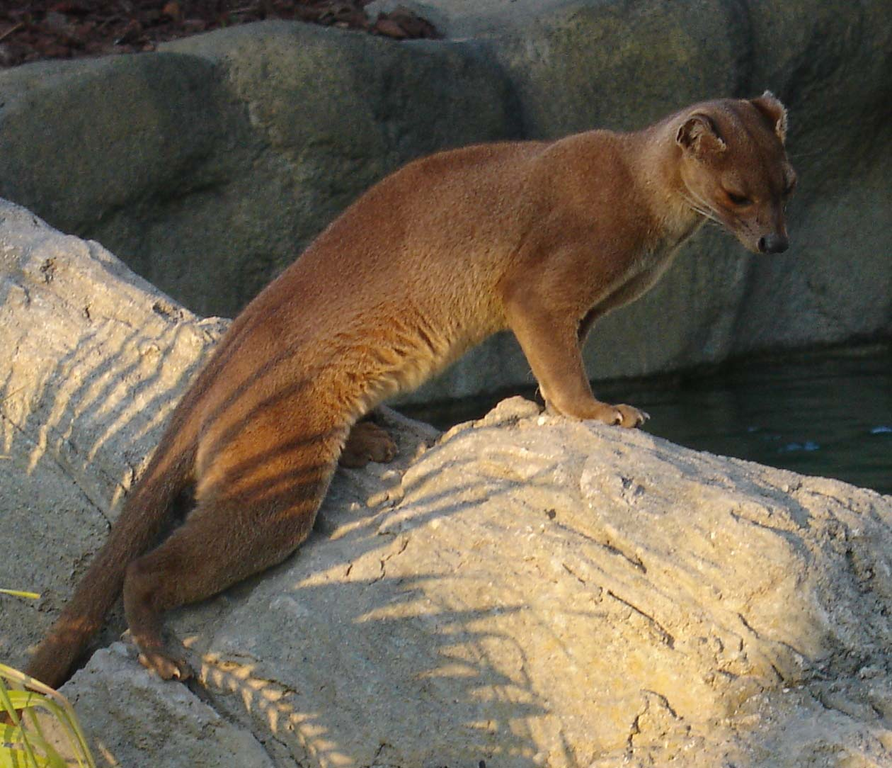 Fossa-Cryptoprocta Ferox-carnivore-Madagascar-mammal, Bioparc Valencia